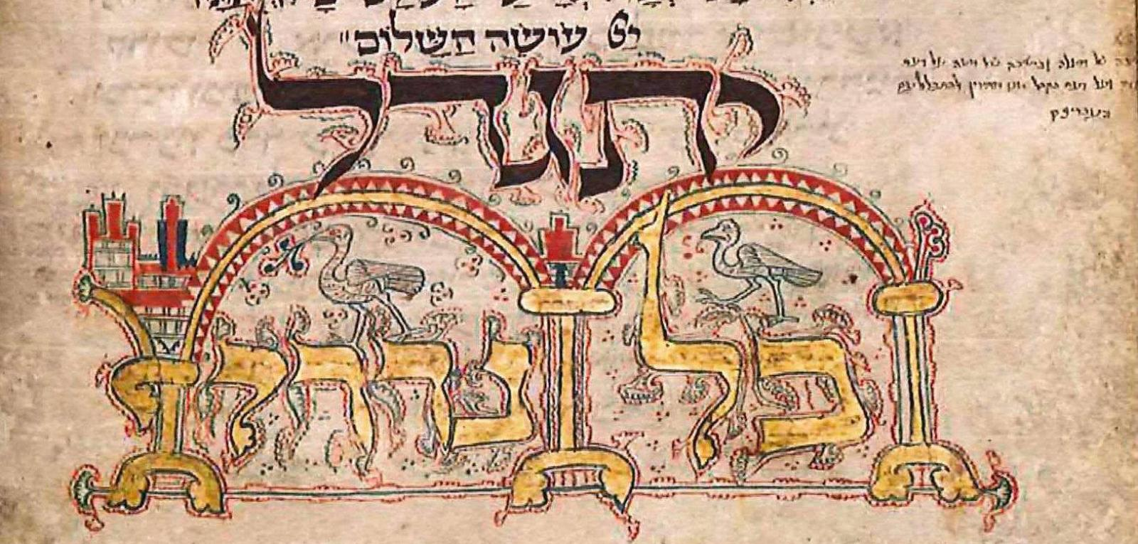 Amsterdam Mahzor, detail of folio 180V